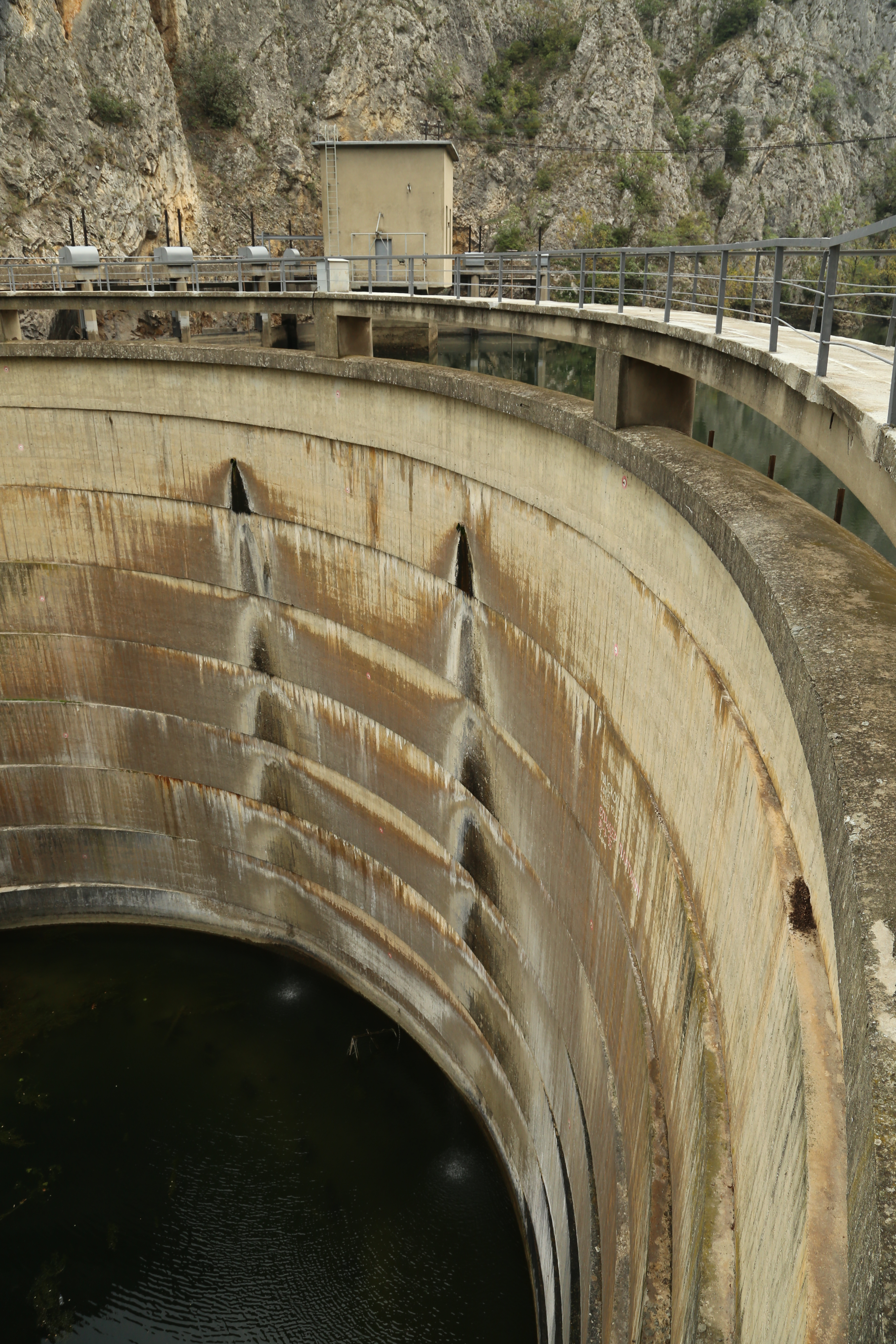 Matka dam, Macedonia